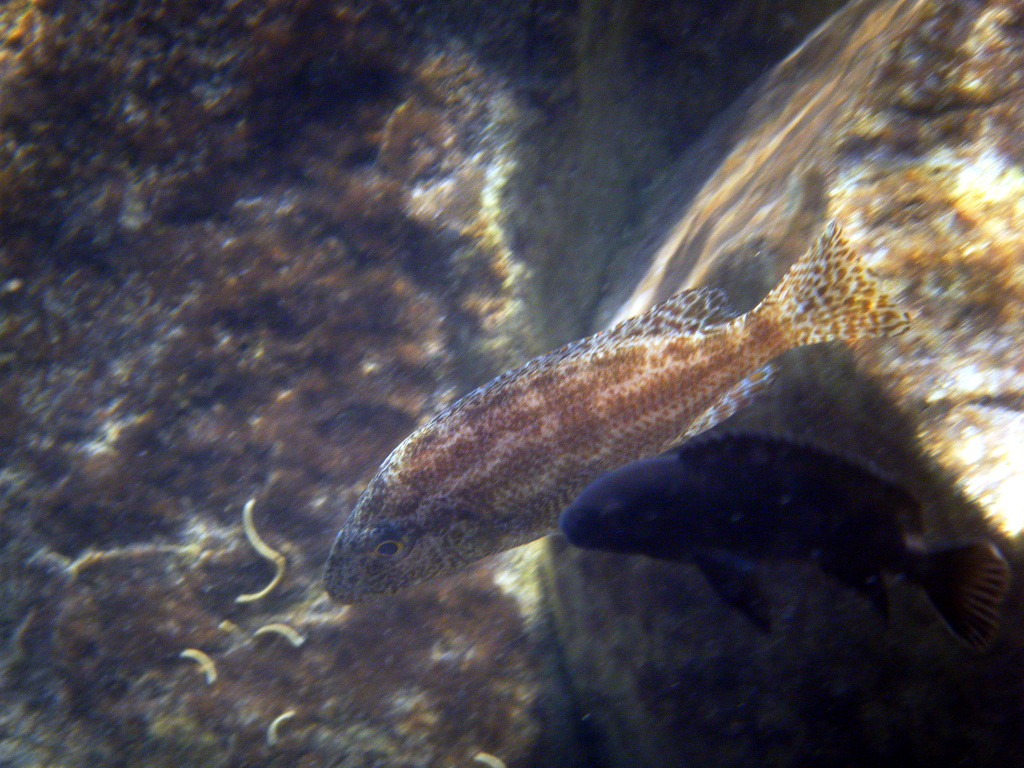 Nimbochromis linni, Location: Thumbi West Island